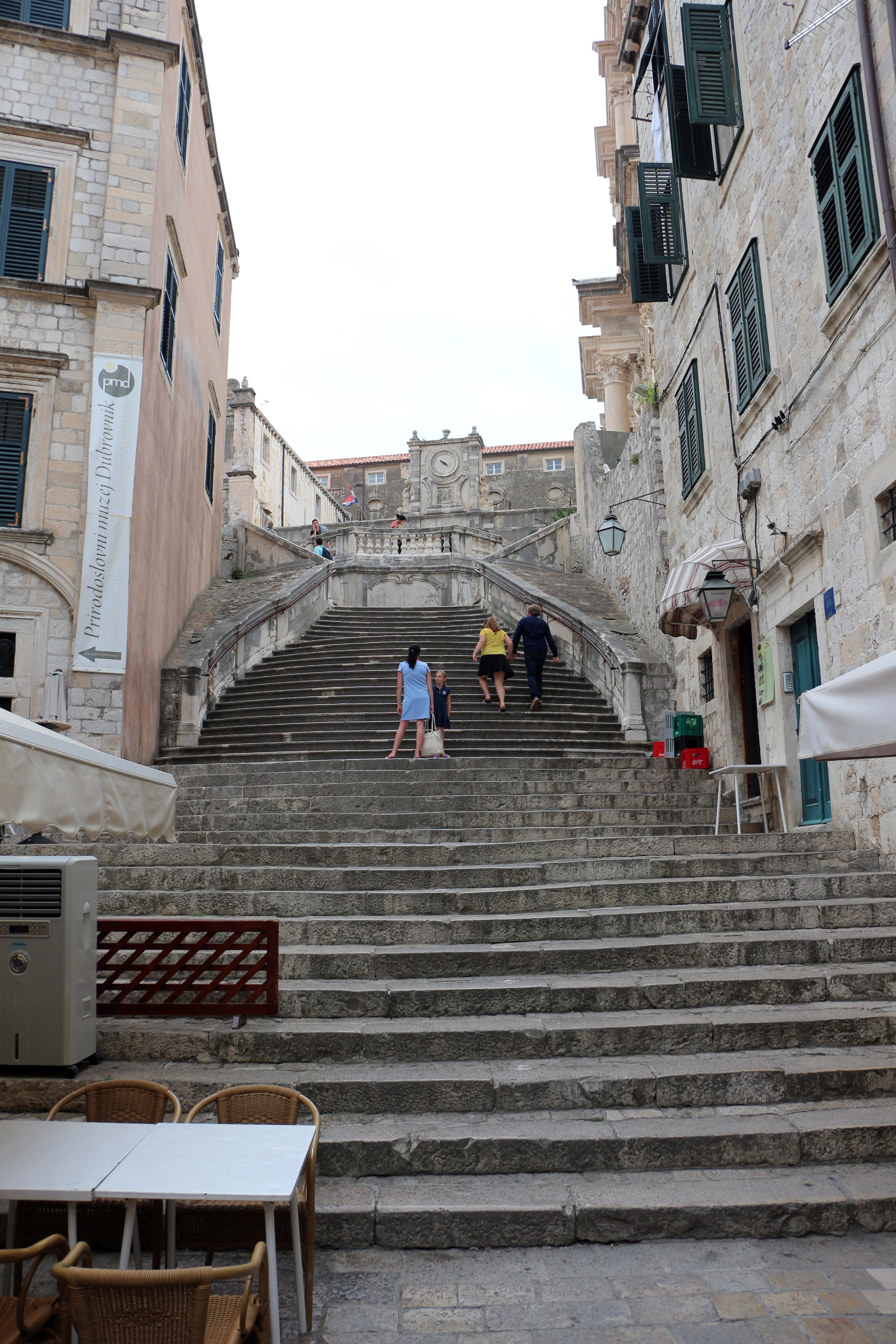 Saint Ignatius Church (Dubrovnik)